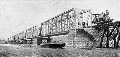 Neuquen-Cipolletti railway bridge, over Neuquén river.